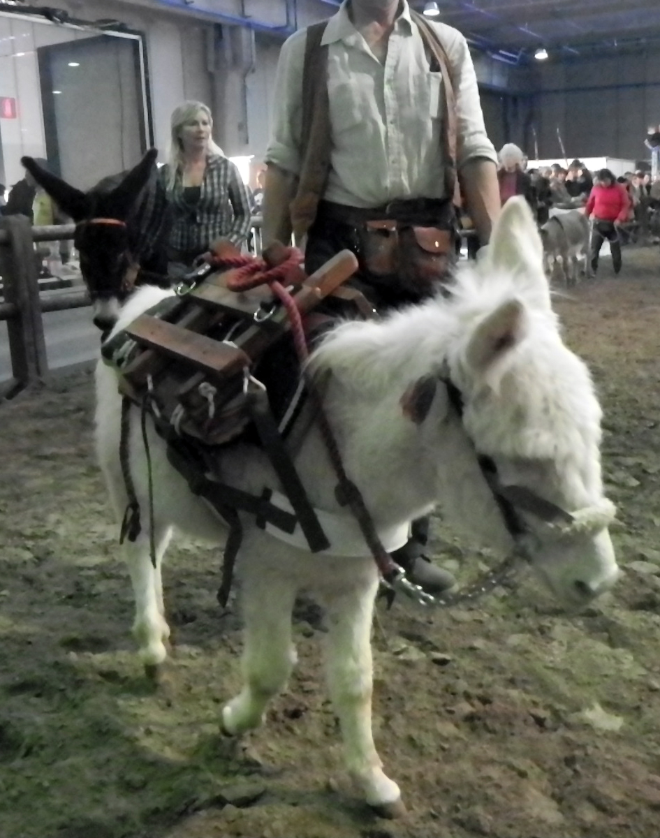 Asinara Donkey (Asino dell'Asinara) with pack saddle, with a Ragusano (Asino ragusano) just visible behind it; photographed at Fieracavalli, Verona, Italy, on 9 November 2014.